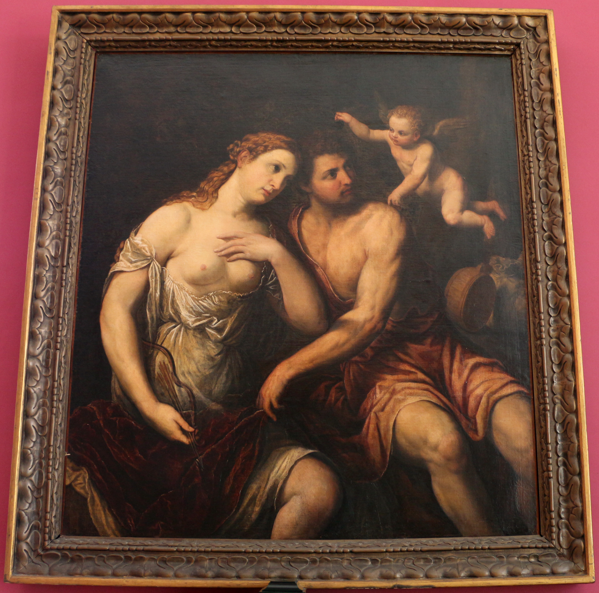 Rector's palace